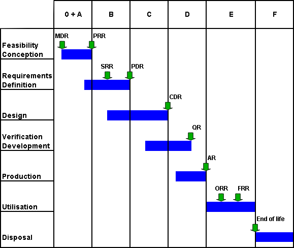 Project phases according to ECSS